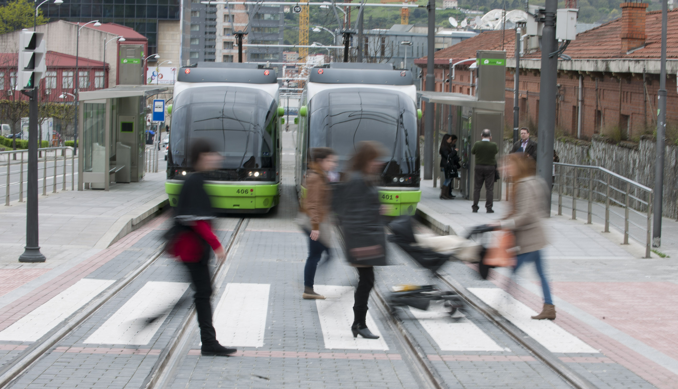 Euskotren Tranbia tramway station Ospitalea at Basurto, Bilbao